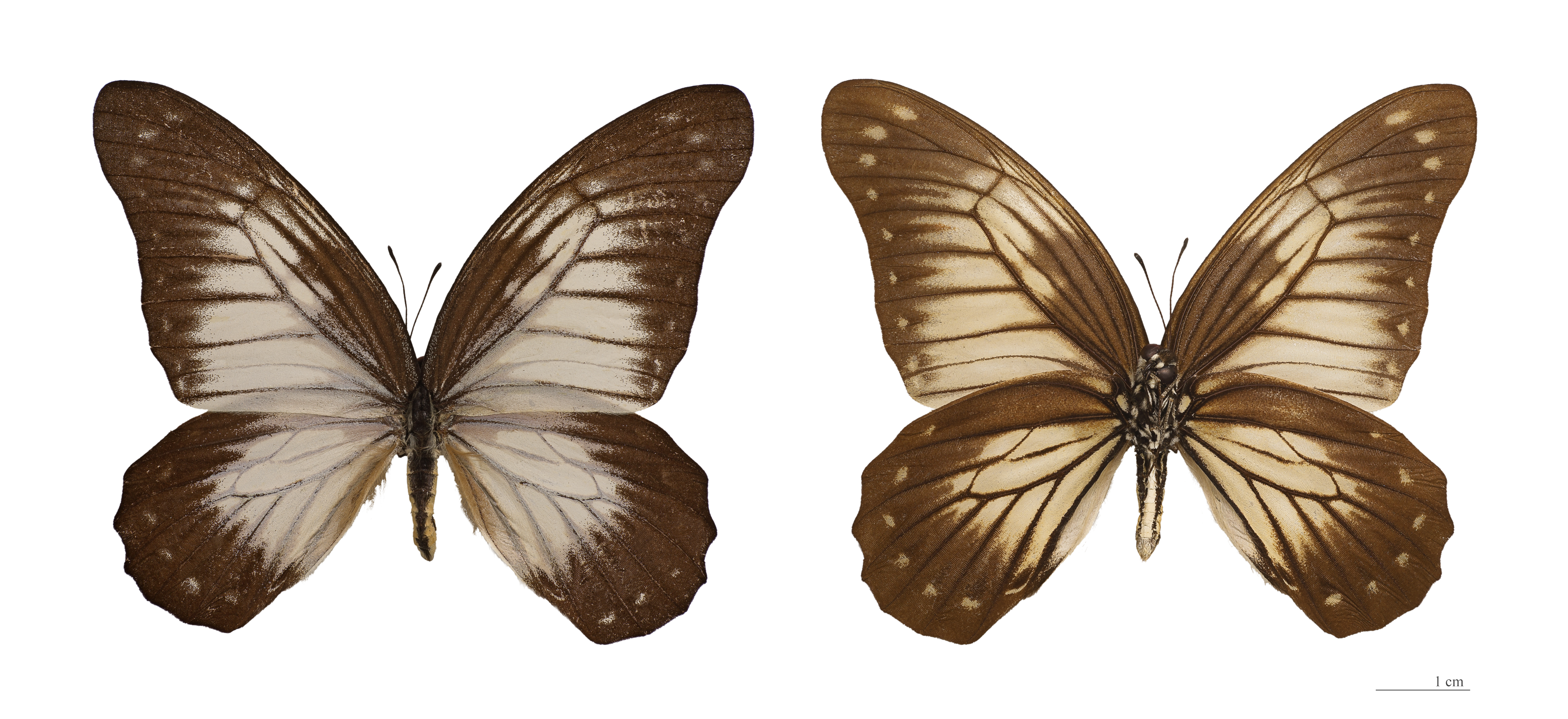 ♂ - Two views of same specimen Locality: Boukoko, South Sulawesi, Indonesia.